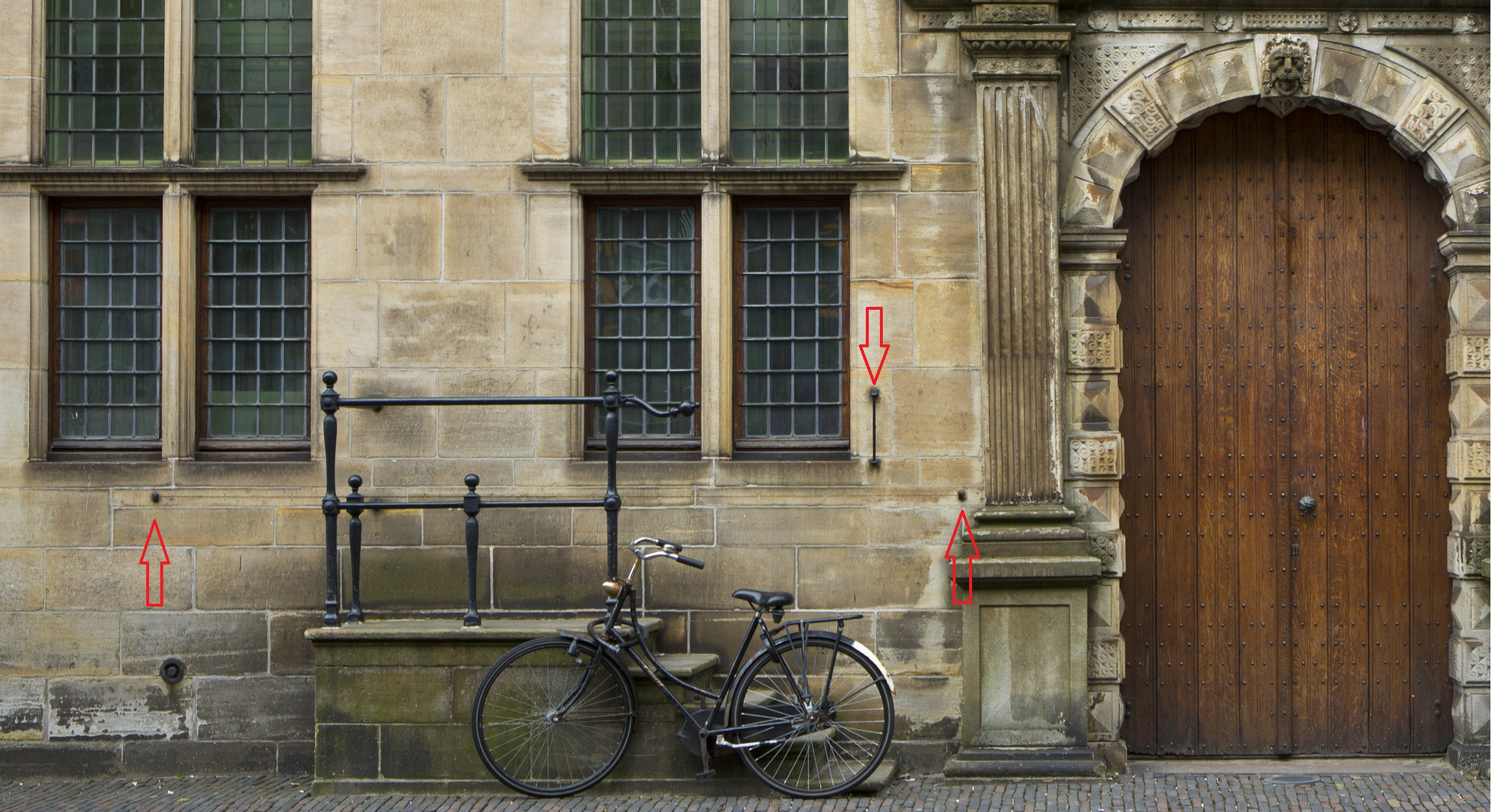 The definitive Rhineland rood and foot were located next to this door, part of the Leiden townhall (Netherlands). The definitve foot measure is the vertical iron bar to the right of the right-hand window (indicated by a red arrow). Before the fire of 1929, the definitive rood was a horizonatal iron bar below the two windows. The location of the end-pieces of the iron bar are still visible and are indicated by arrows.